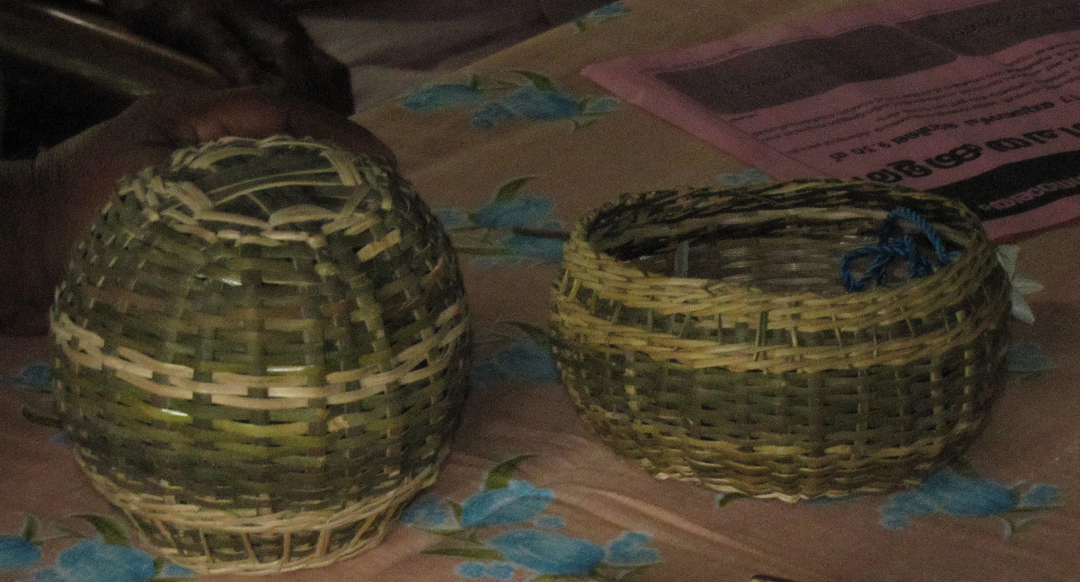 A small size Handicrafted basket from Koovery